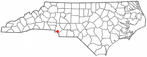 Category:North Carolina Dot Maps